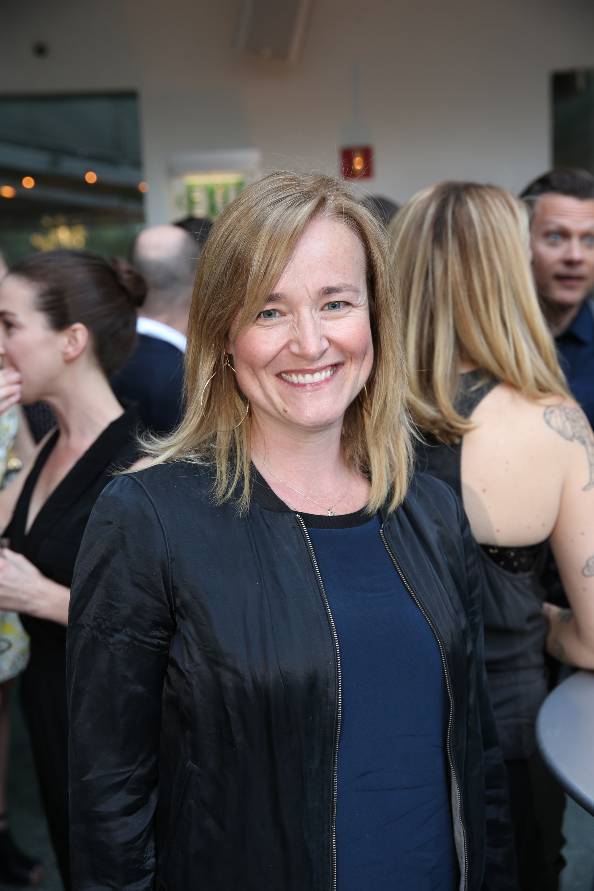 Jennifer Irwin in 2015